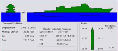 Screenshot of ship stability program written by the U.S. Dept of Homeland Security Naval Engineering Division